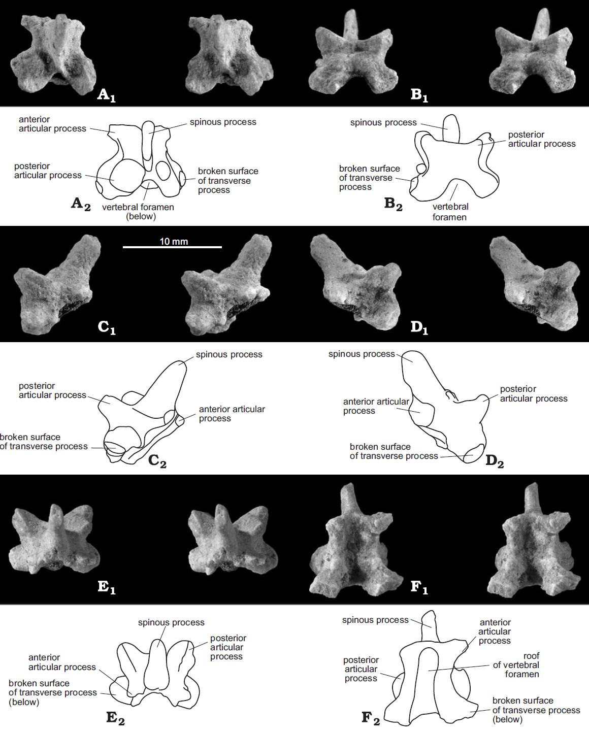 Multituberculate mammal Catopsbaatar catopsaloides (Kielan−Jaworowska, 1974), PM 120/107, Upper Cretaceous, red beds of Hermiin Tsav, Hermiin Tsav I locality, Gobi Desert, Mongolia. Incomplete lumbar vertebra (possibly L5 or L6), with spinous process partly preserved, missing transverse processes and the body (no. 8 in Fig. 1A), in dorsal (A), posterior (B), right lateral (C), left lateral (D), anterior (E), and ventral (F) views. Stereo−photo− graphs (A1, B1, C1, D1, E1, and F1) and explanatory drawings (A2, B2, C2, D2, E2, and F2). All the items are in the same scale (marked at C1).